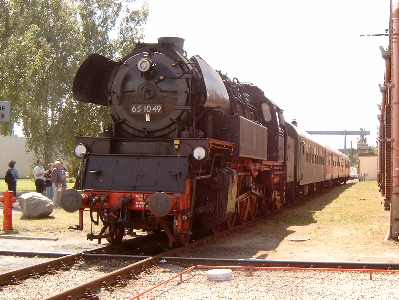 Locomotive BR 65 1049 at railway plant Leipzig-Engelsdorf on open day 2005.